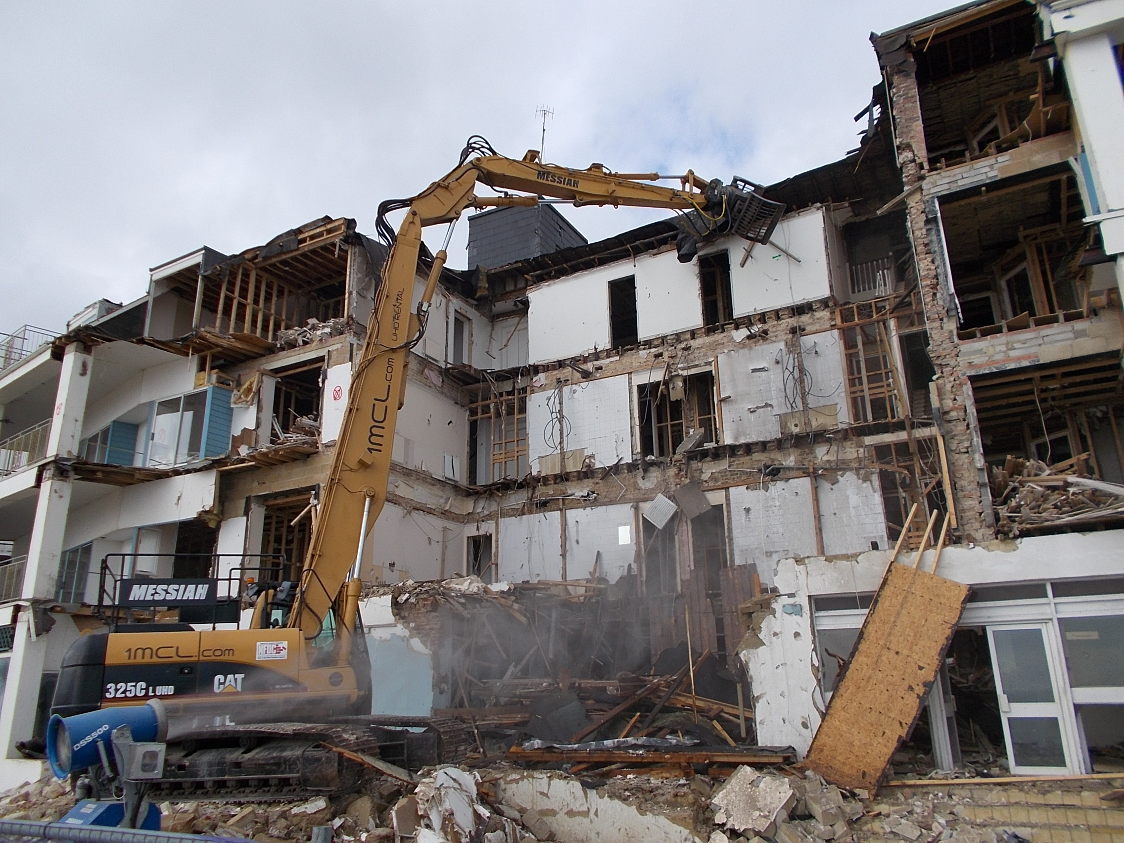 Demolition of the former Carlton Hotel on the esplanade at Sandown, Isle of Wight, UK, to make way for new development. The blue cannon at the bottom left is spraying water mist to suppress dust.